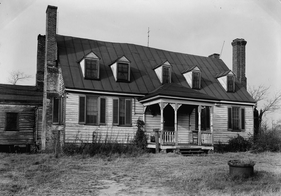 Windsor Castle, State Route 610, Toano vicinity (James City, Virginia) cropped This file comes from the Historic American Buildings Survey (HABS), Historic American Engineering Record (HAER) or Historic American Landscapes Survey (HALS). These are programs of the National Park Service established for the purpose of documenting historic places. Records consist of measured drawings, archival photographs, and written reports. When reusing please credit: Library of Congress, Prints & Photographs Division, VA,48-TOA.V,1-2 This tag does not indicate the copyright status of the attached work. A normal copyright tag is still required. See Commons:Licensing for more information. English | +/− This work is in the public domain in the United States because it is a work prepared by an officer or employee of the United States Government as part of that person’s official duties under the terms of Title 17, Chapter 1, Section 105 of the US Code. See Copyright. Note: This only applies to original works of the Federal Government and not to the work of any individual U.S. state, territory, commonwealth, county, municipality, or any other subdivision. This template also does not apply to postage stamp designs published by the United States Postal Service since 1978. (See § 313.6(C)(1) of Compendium of U.S. Copyright Office Practices). It also does not apply to certain US coins; see The US Mint Terms of Use. This file has been identified as being free of known restrictions under copyright law, including all related and neighboring rights.